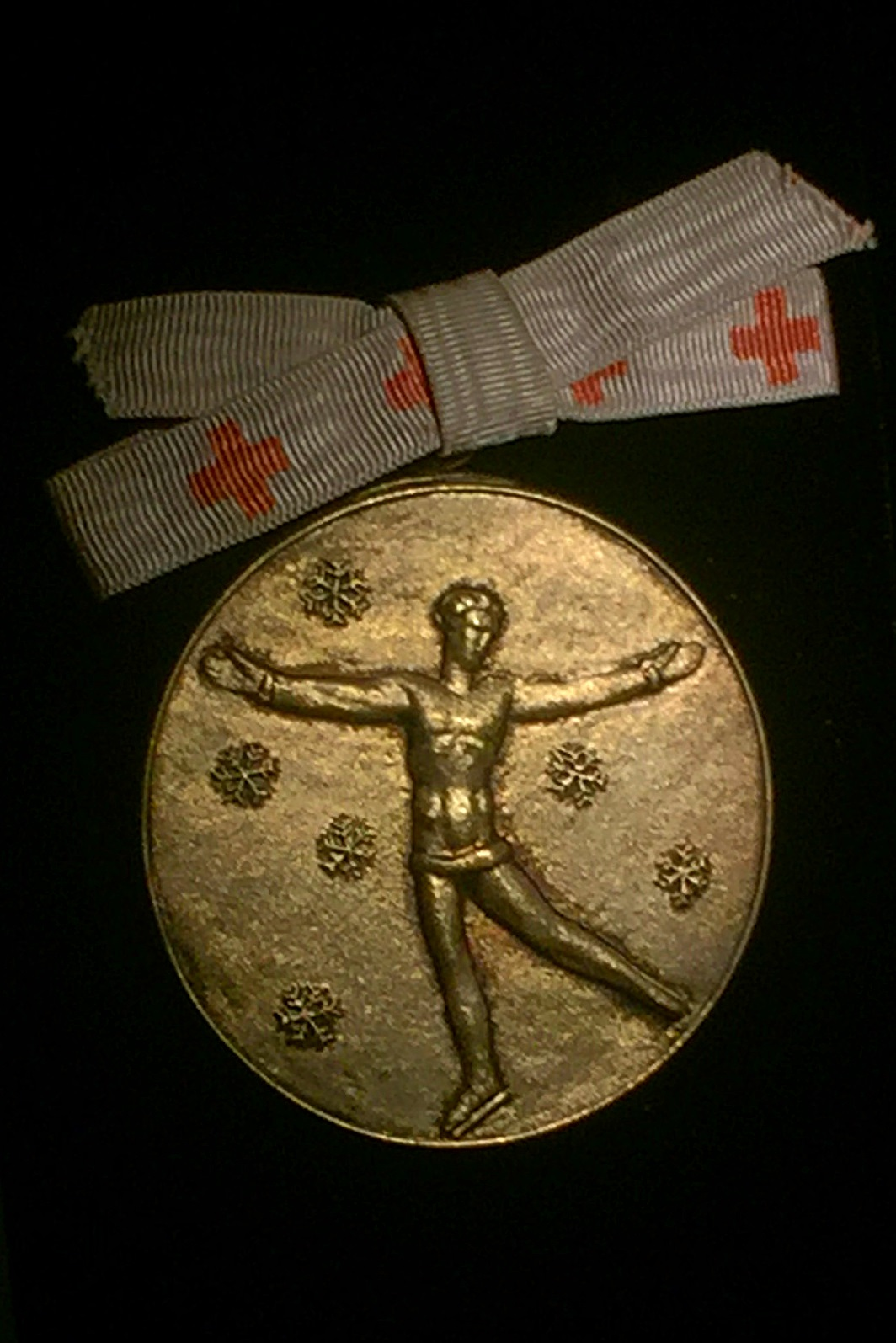 Sonja Henie's Olympic Gold Medal. St. Moritz, 1928. On display at Henie Onstad Kunstsenter.